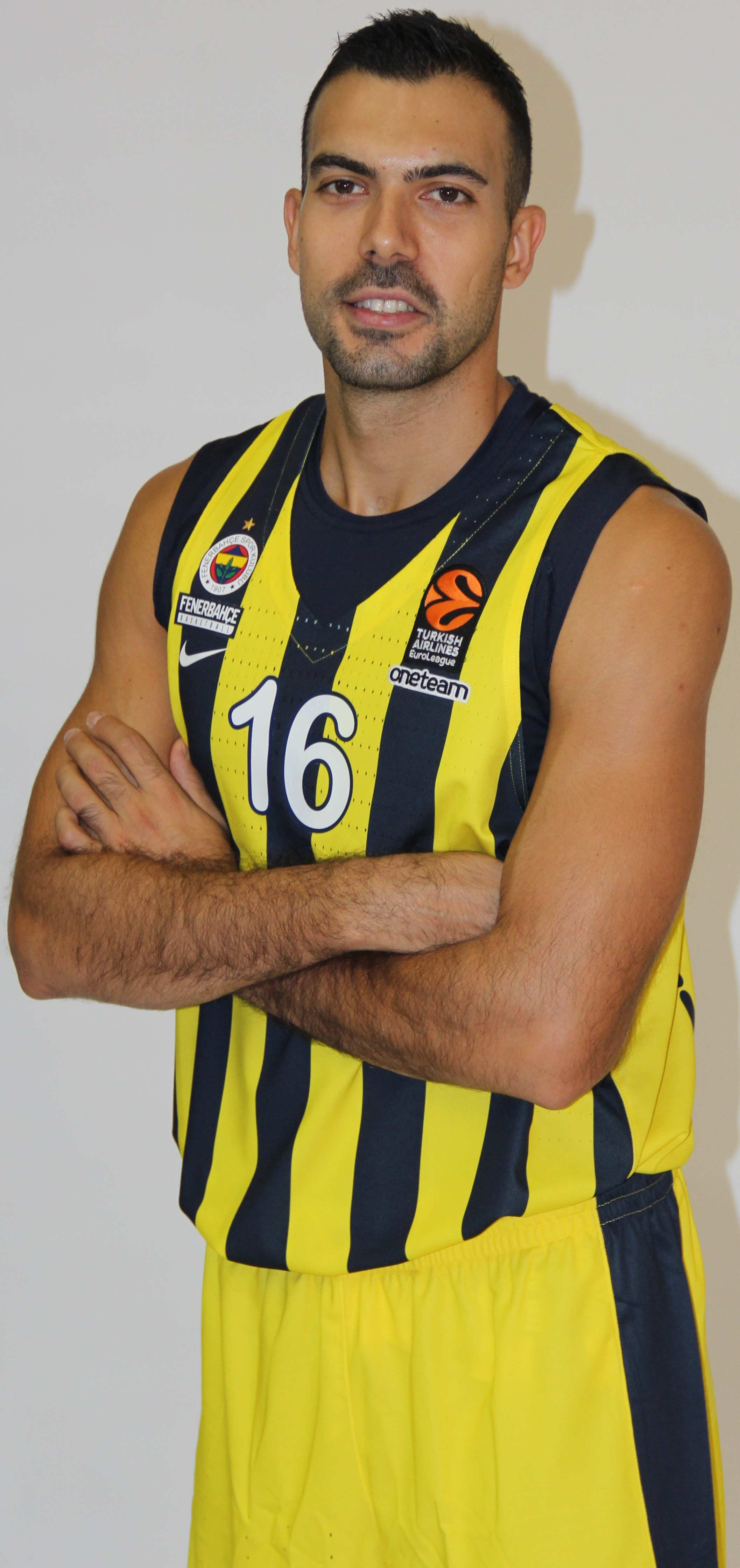 Kostas Sloukas Fenerbahçe Basketball Media Day 20180925